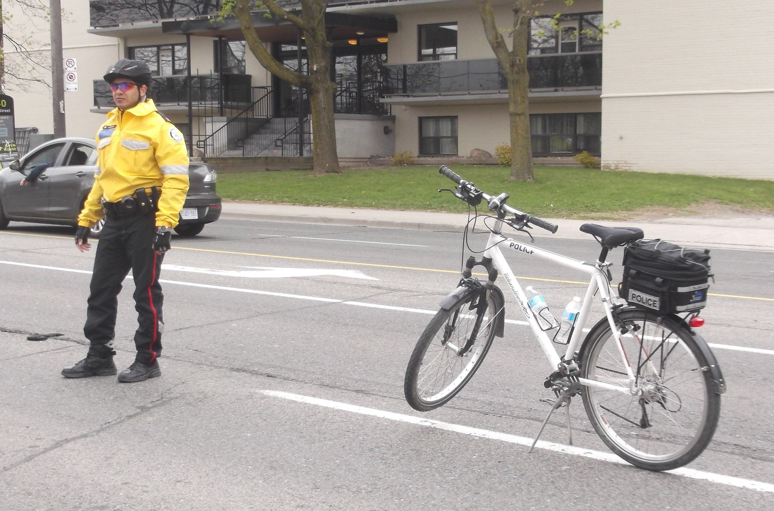 TPS bike